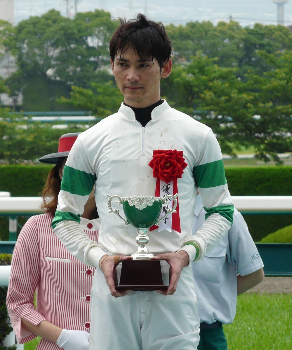 Keisuke-Dazai20110619